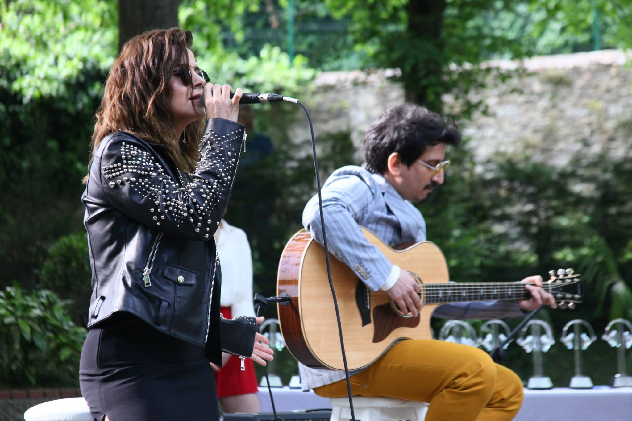 Simge performing "Üzülmedin mi?" at 15th Radio Boğaziçi Music Awards.